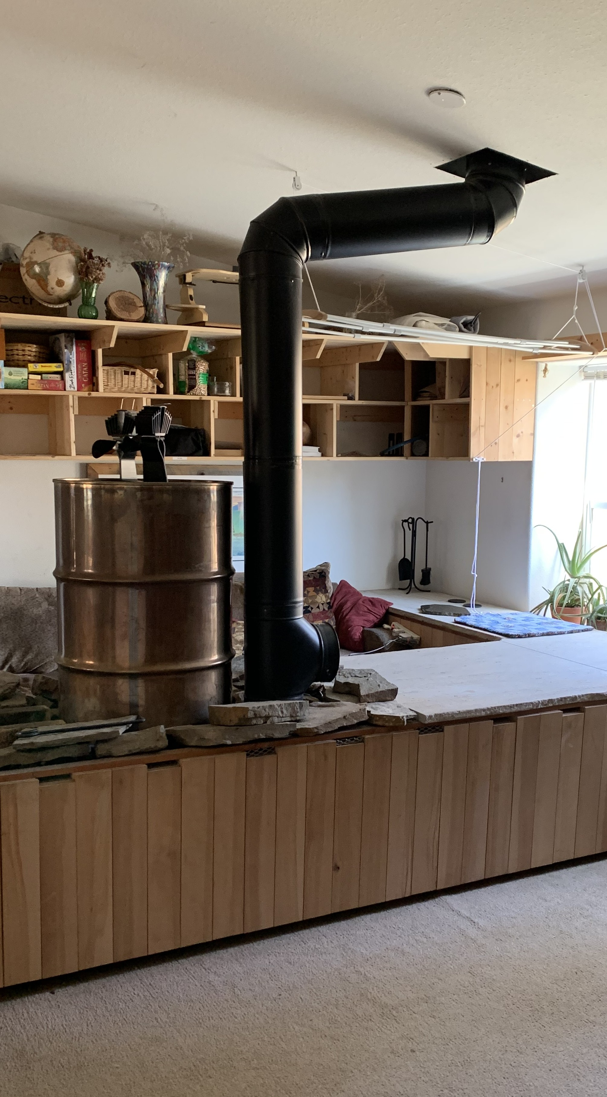 A pebble style RMH installed indoor